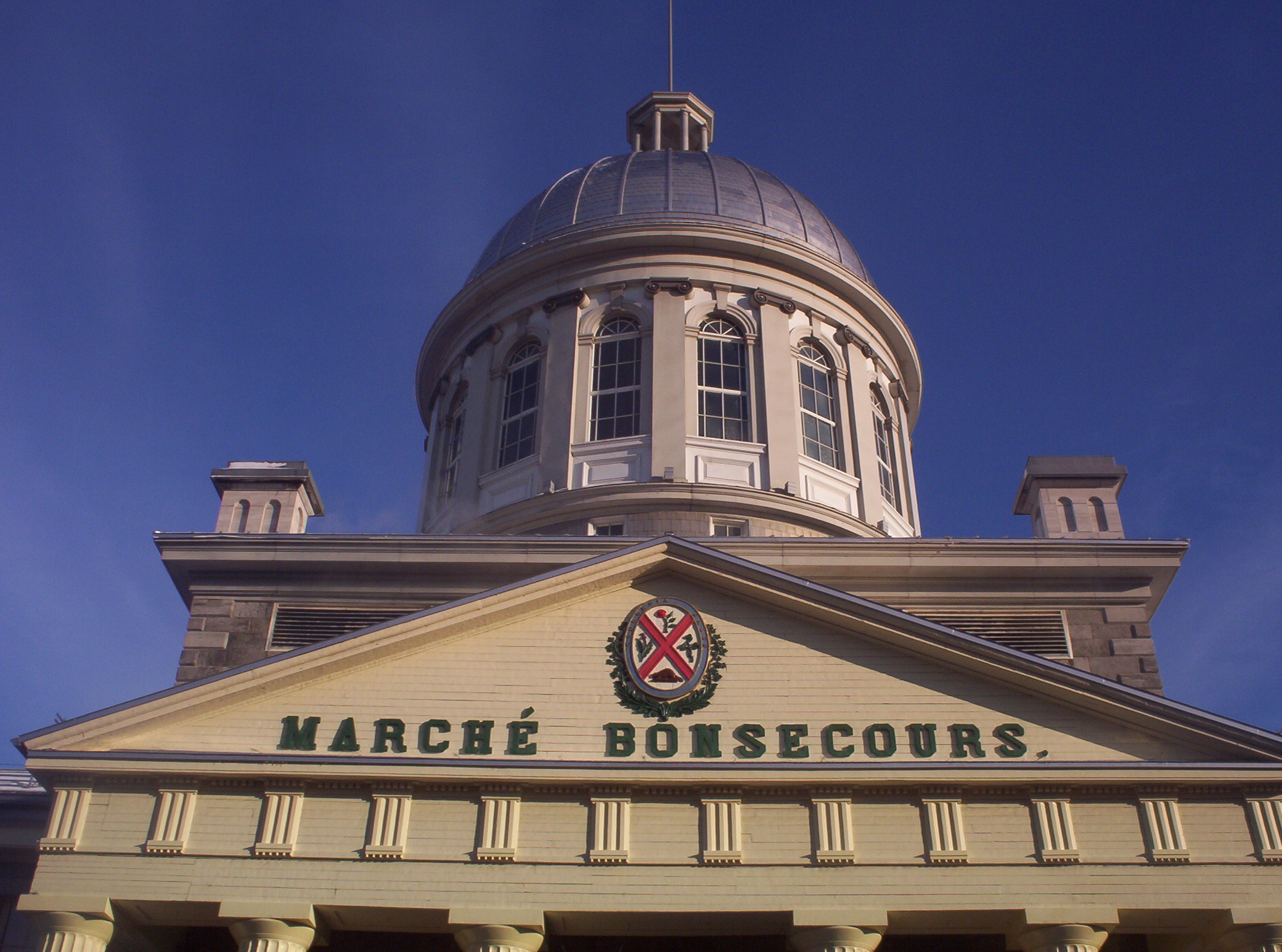 Summary: The Bonsecours Market in Montréal, Québec Author: Colocho Date: January 22nd, 2006